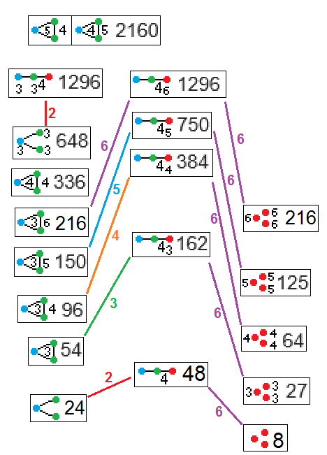 Complex polytope rank 3 symmetry groups, in subgroup relation chart